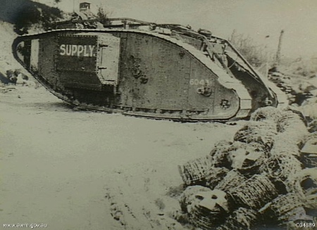 AWM caption : Villers-Bretonneux. August 1918. Supply tank en route to the line at Villers-Bretonneux. Note the rolls of barbed wire in the right foreground.